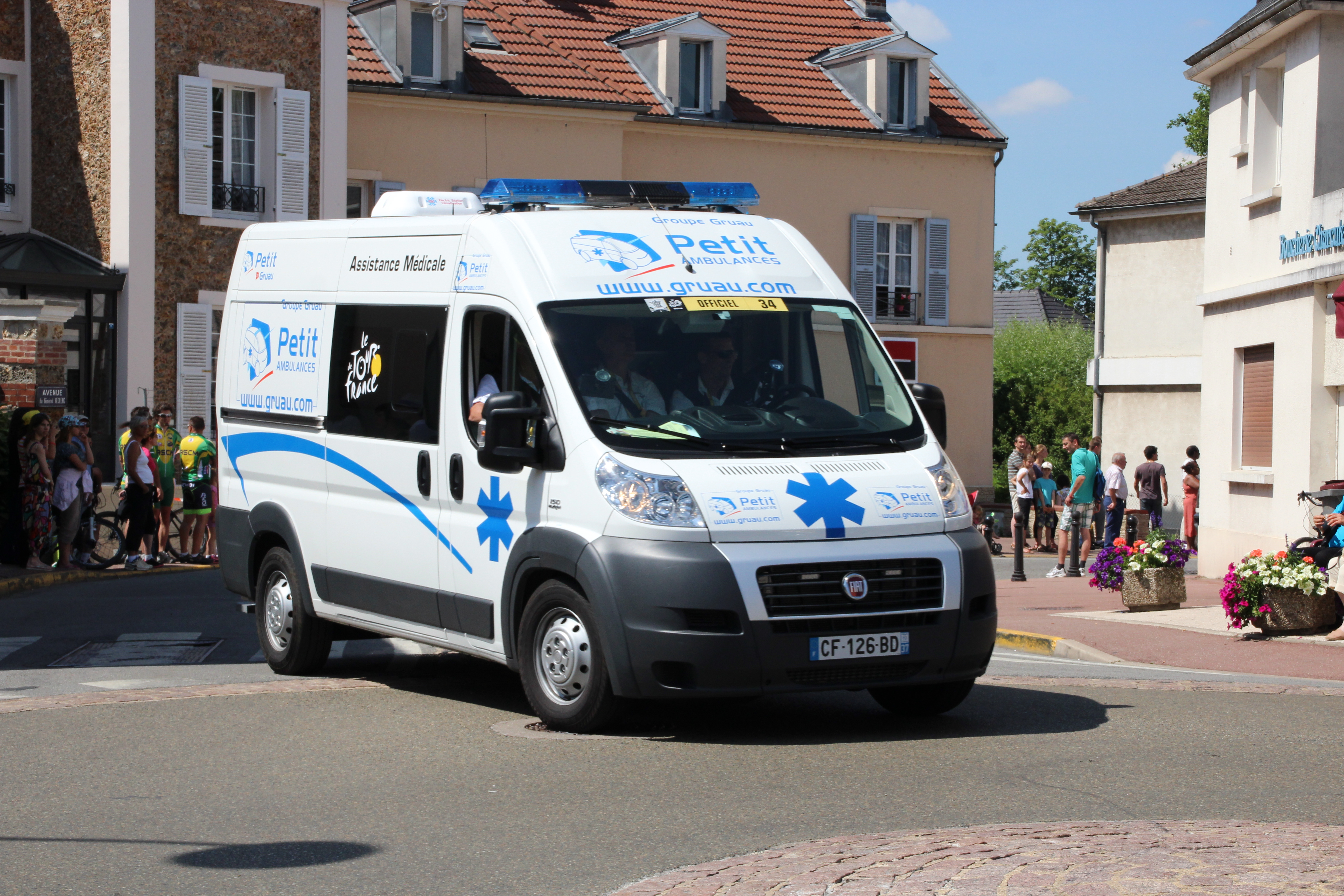 Passage of the 2012 Tour de France in Saint-Rémy-lès-Chevreuse, France.